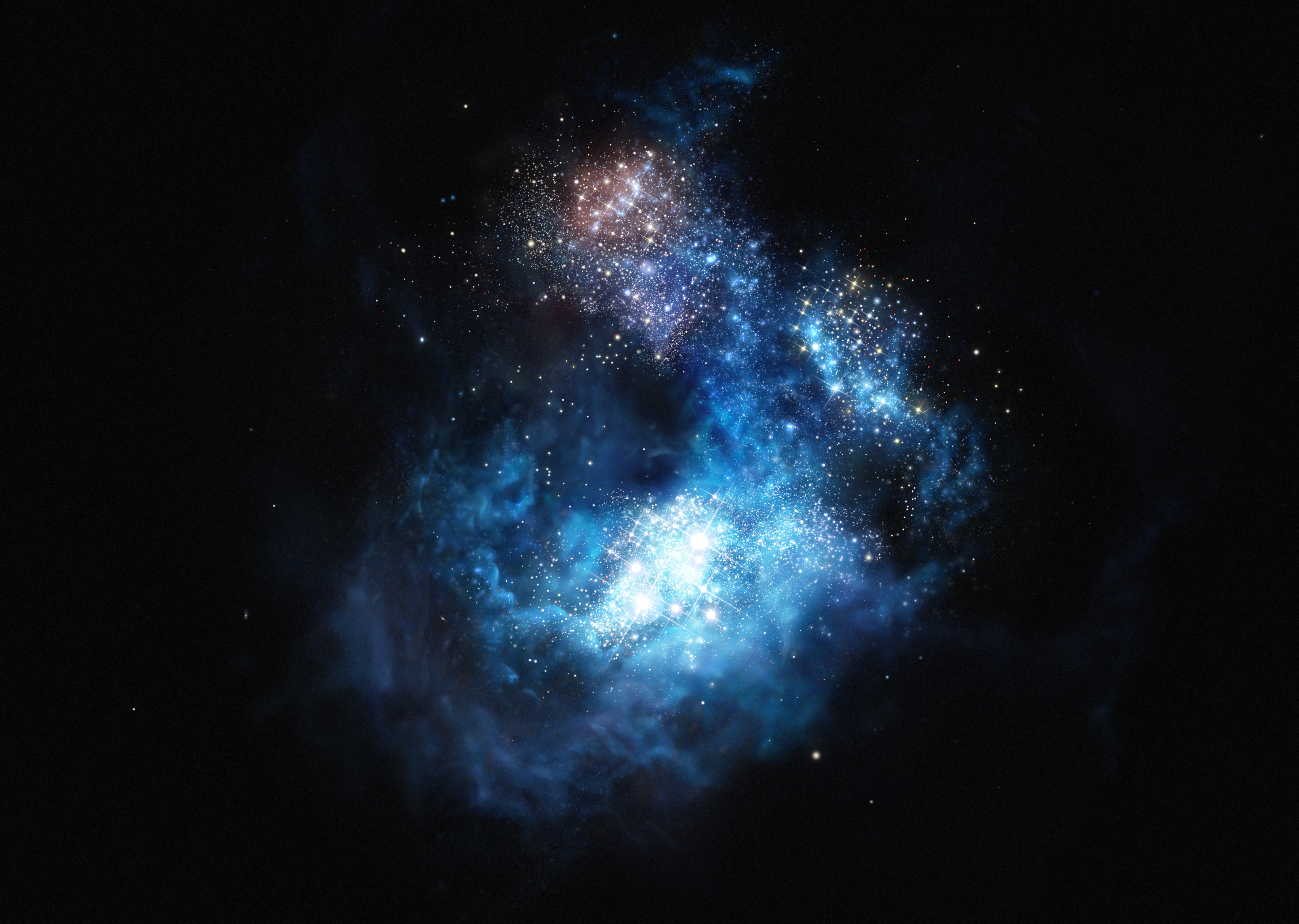 This artist’s impression shows CR7 a very distant galaxy discovered using ESO’s Very Large Telescope. It is by far the brightest galaxy yet found in the early Universe and there is strong evidence that examples of the first generation of stars lurk within it. These massive, brilliant, and previously purely theoretical objects were the creators of the first heavy elements in history — the elements necessary to forge the stars around us today, the planets that orbit them, and life as we know it. This newly found galaxy is three times brighter than the brightest distant galaxy known up to now.